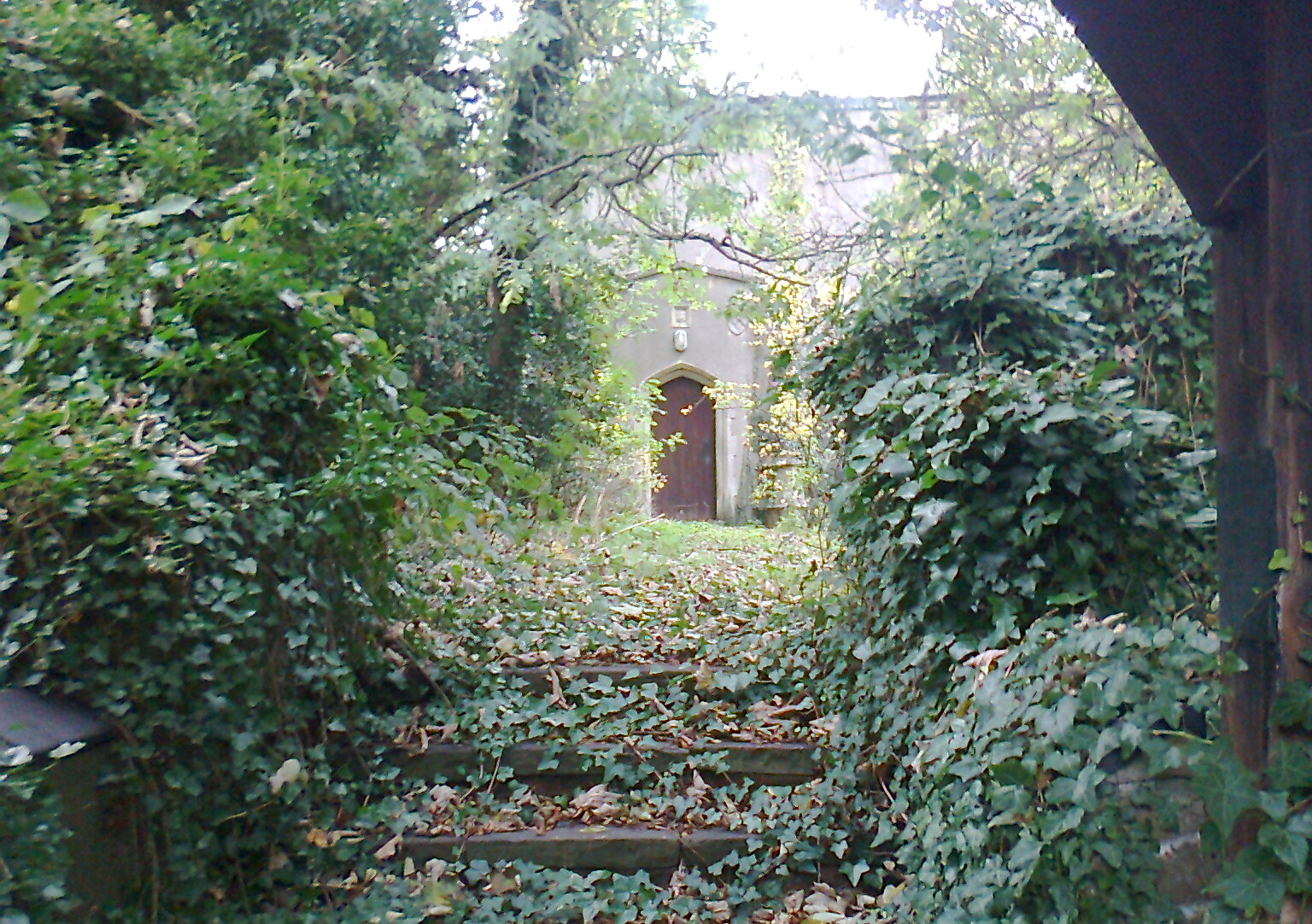 Chapel built over the grave of RH Benson. Taken October 2014